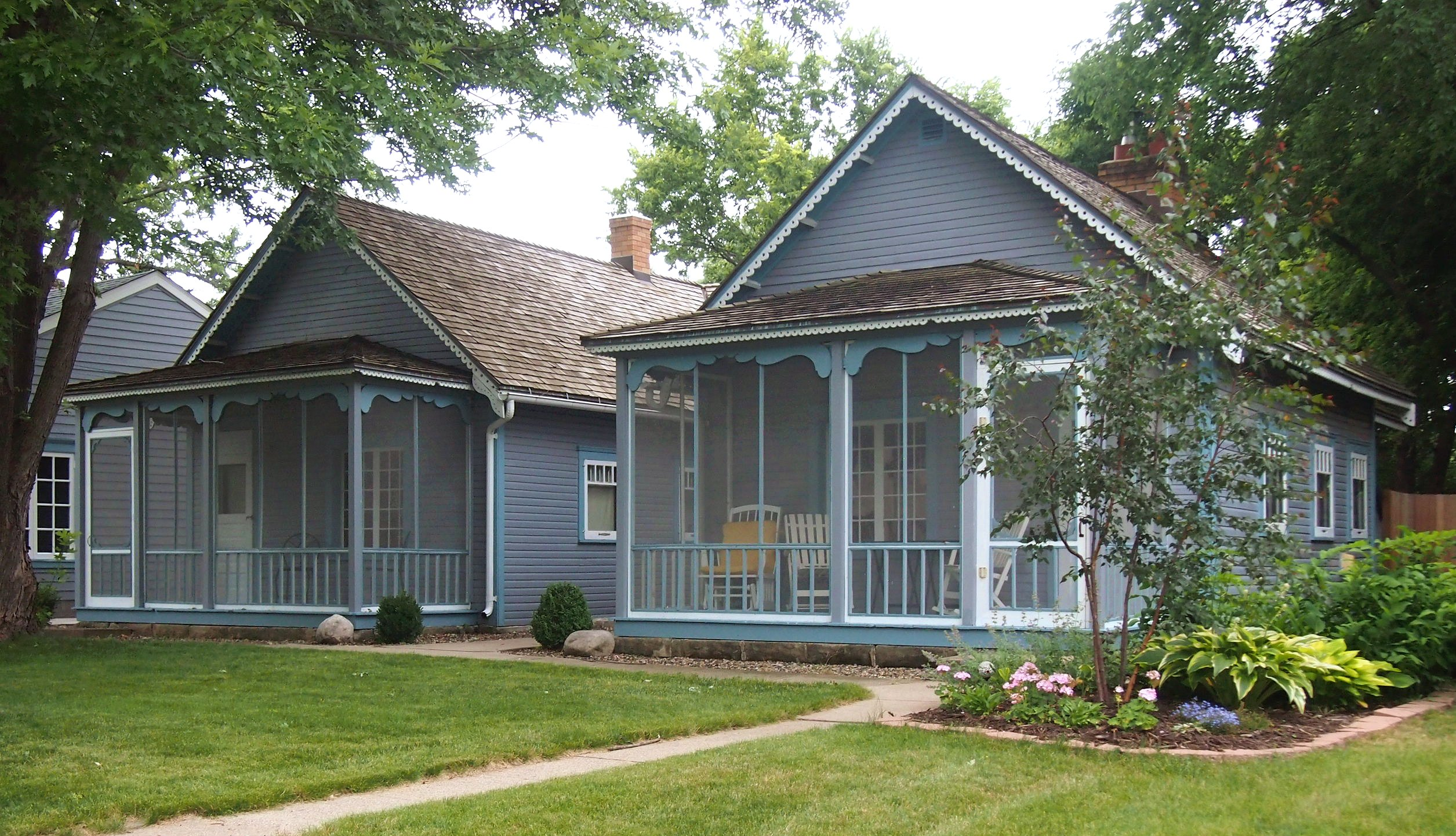 Loren L. Chadwick Cottages, 2617 W 40th St, Minneapolis, Minnesota, USA. Viewed from the northwest.